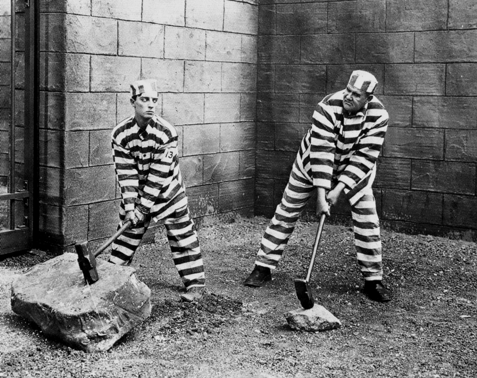 Convict 13 (1920) is a short comedy film starring comedian Buster Keaton. This is a scene from the film.